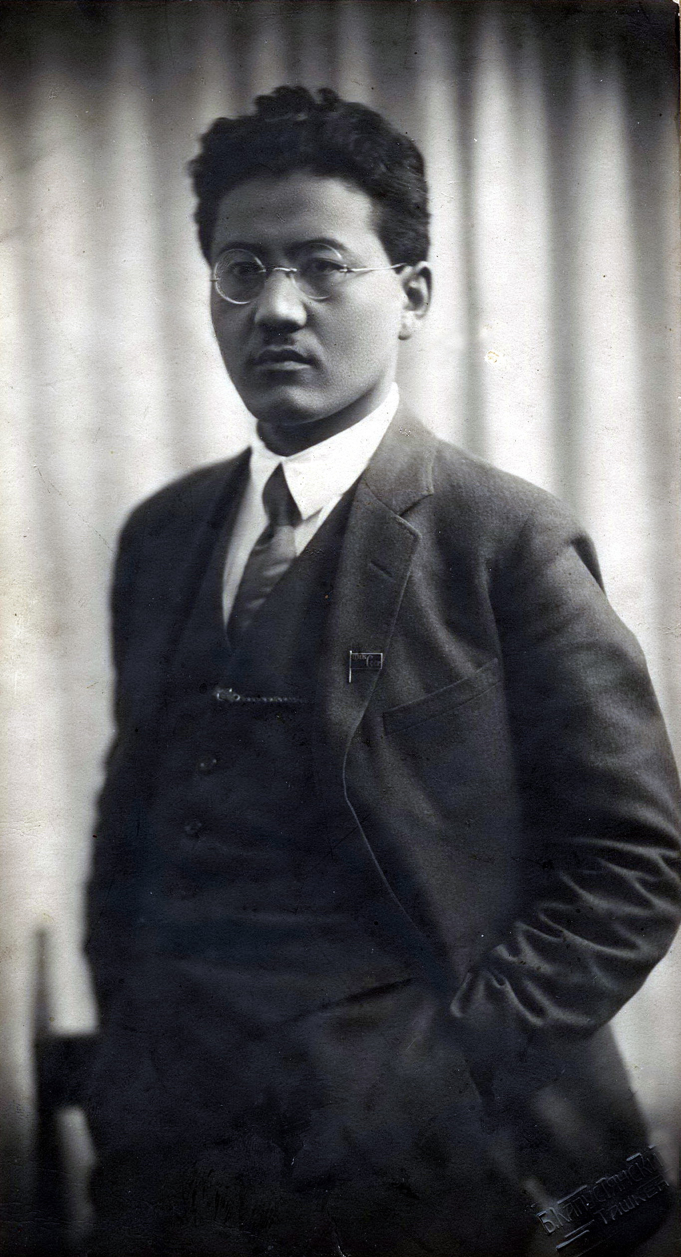 Turar Ryskulov, ethnic Kazakh Soviet politician, Nationalist Communist